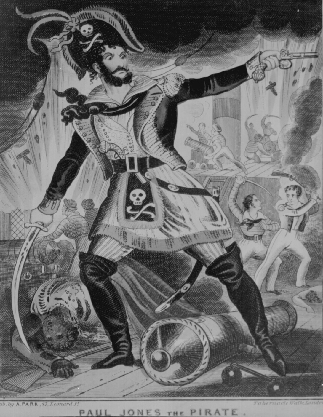 "Paul Jones the pirate", British caricature (engraving) of American naval commander John Paul Jones